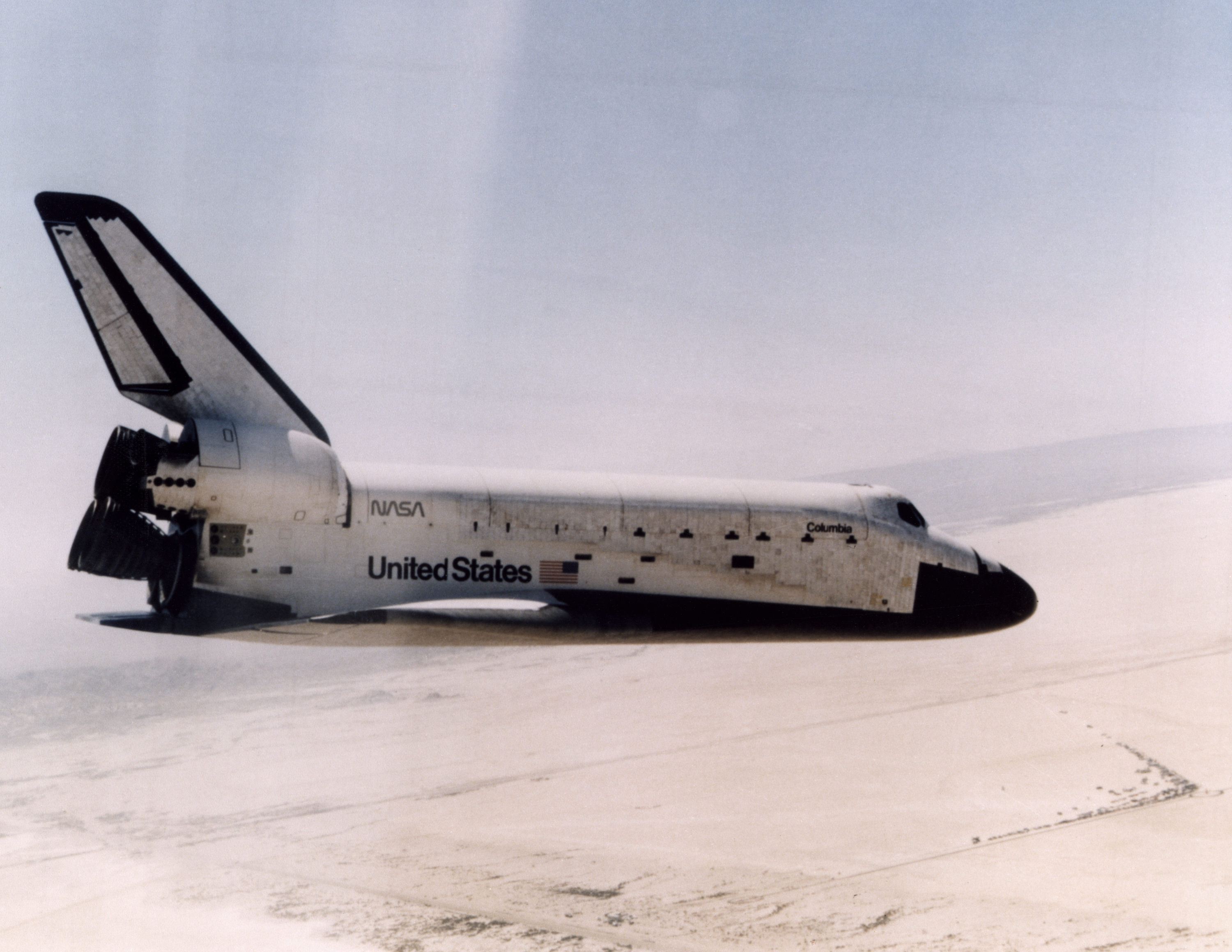 Space Shuttle Columbia approaching Edwards Air Force Base on mission STS-1 on April 14, 1981.